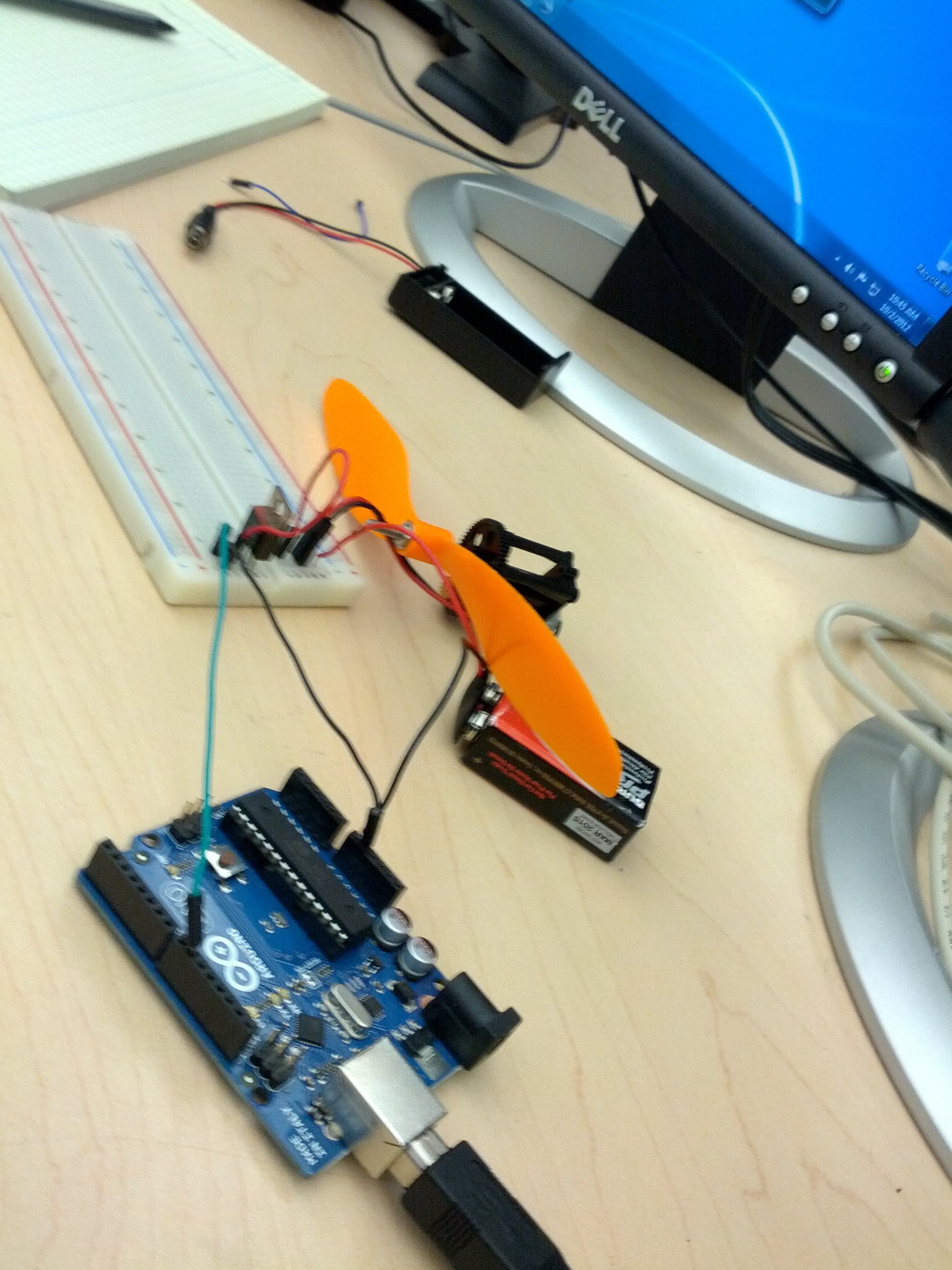 Testing